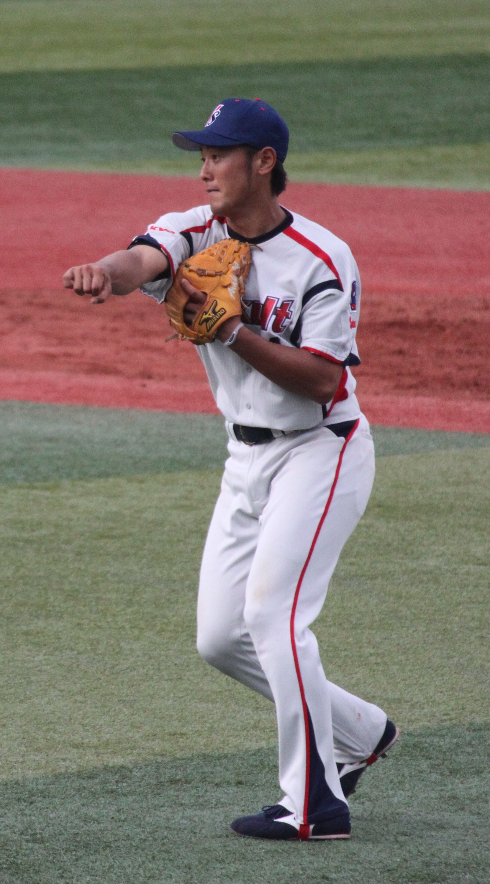 Takahiro Araki, infielder of the Tokyo Yakult Swallows, at Yokohama Stadium.